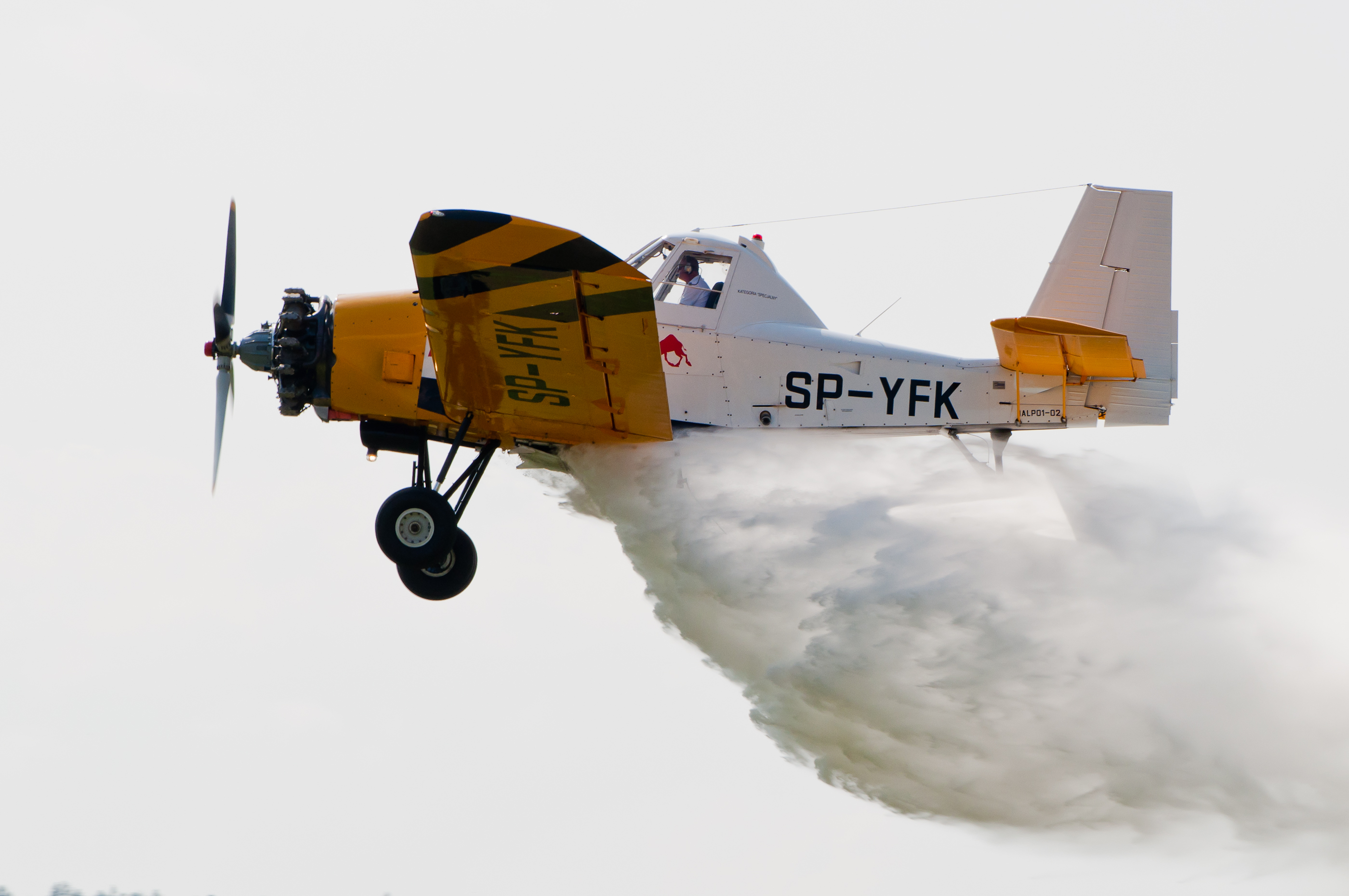 PZL-Mielec M-21 Dromader Mini (reg. SP-YFK, cn 1ALP01-02) at Oldtimer Fliegertreffen Hahnweide 2013.